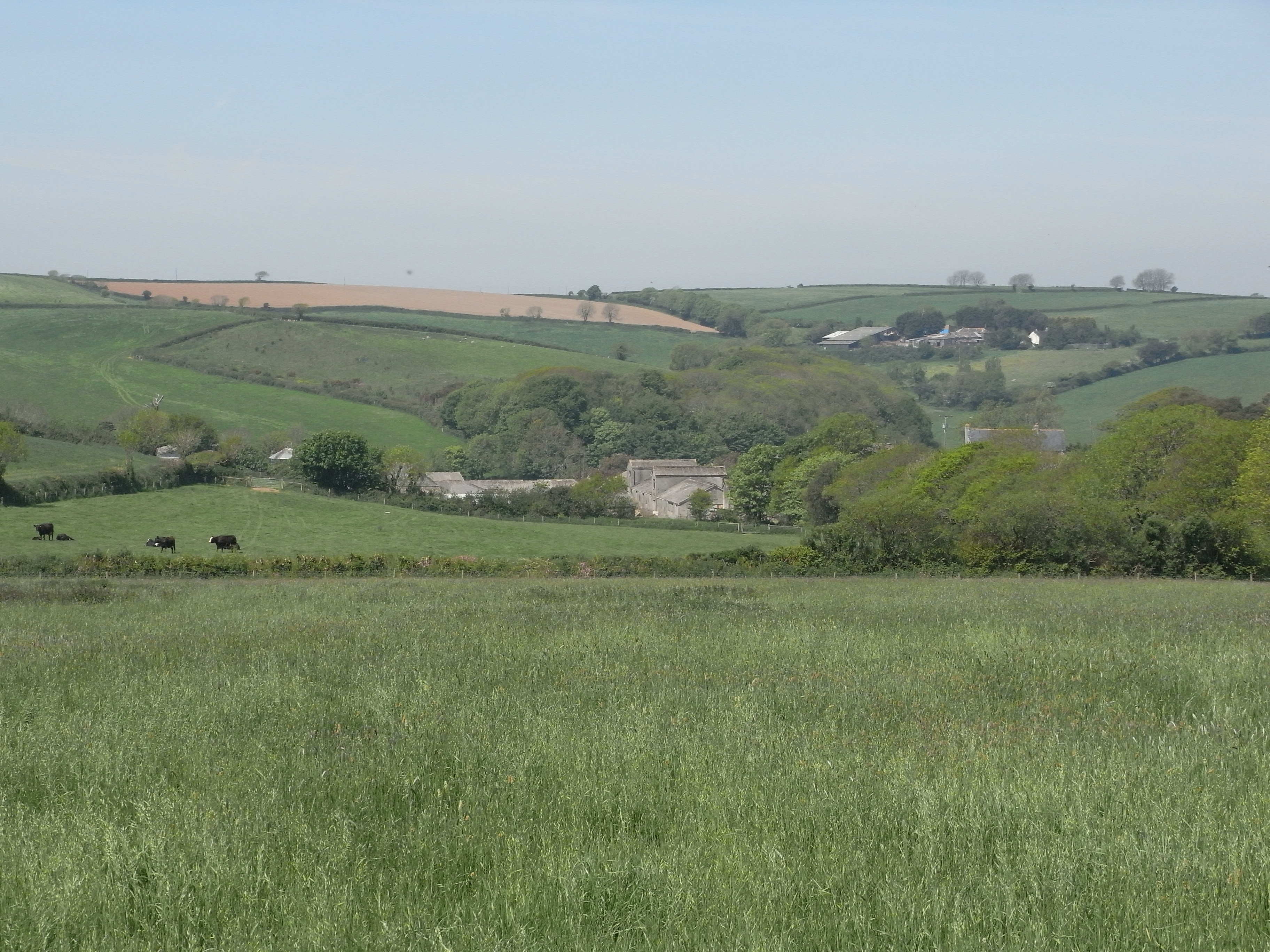 Whympston Farm, 1 mile SE of Modbury, Devon. The ancient origin of the Fortescue family, Earls Fortescue.